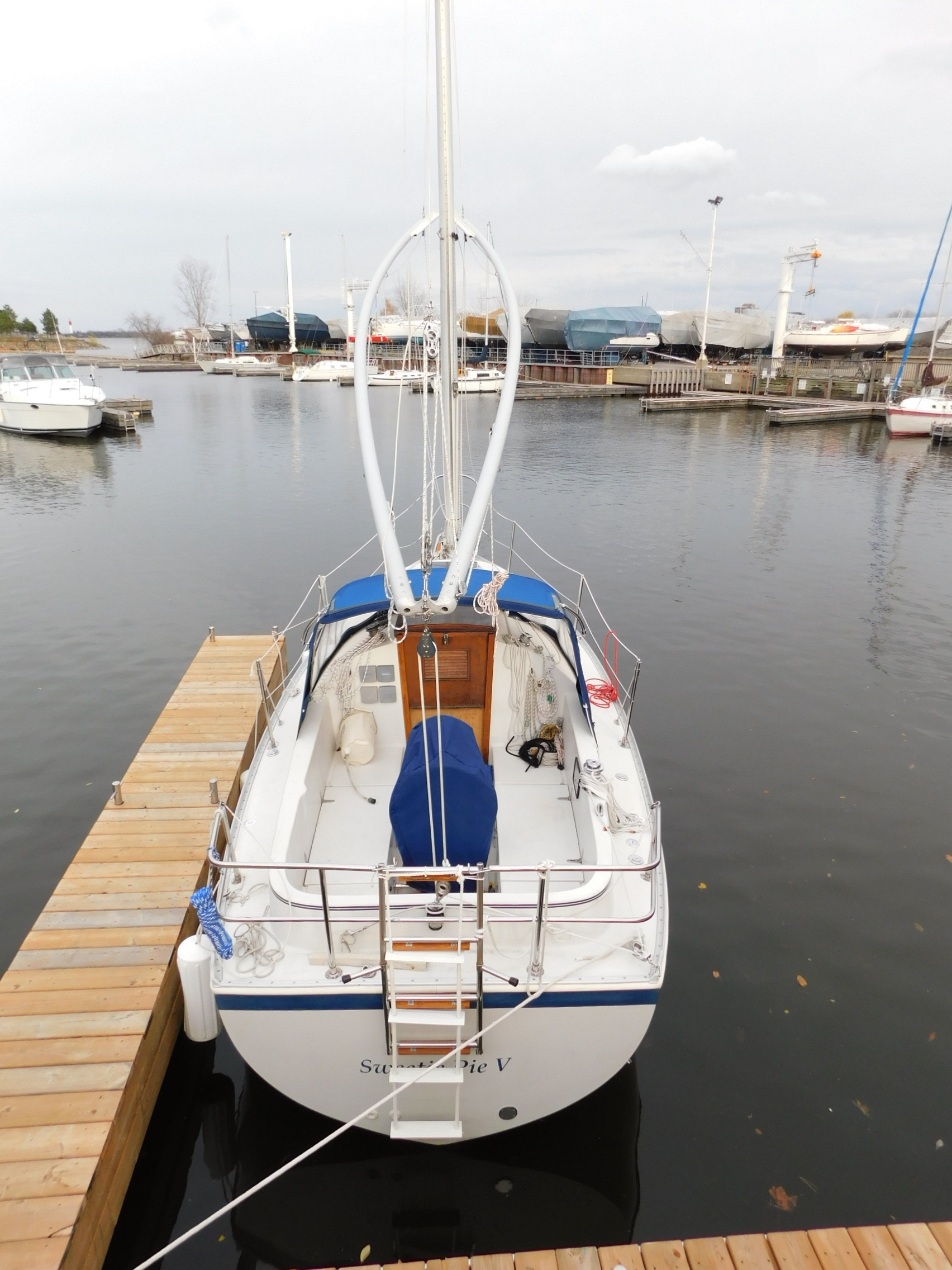 A Nonsuch 22 sailboat named Sweetie Pie V .